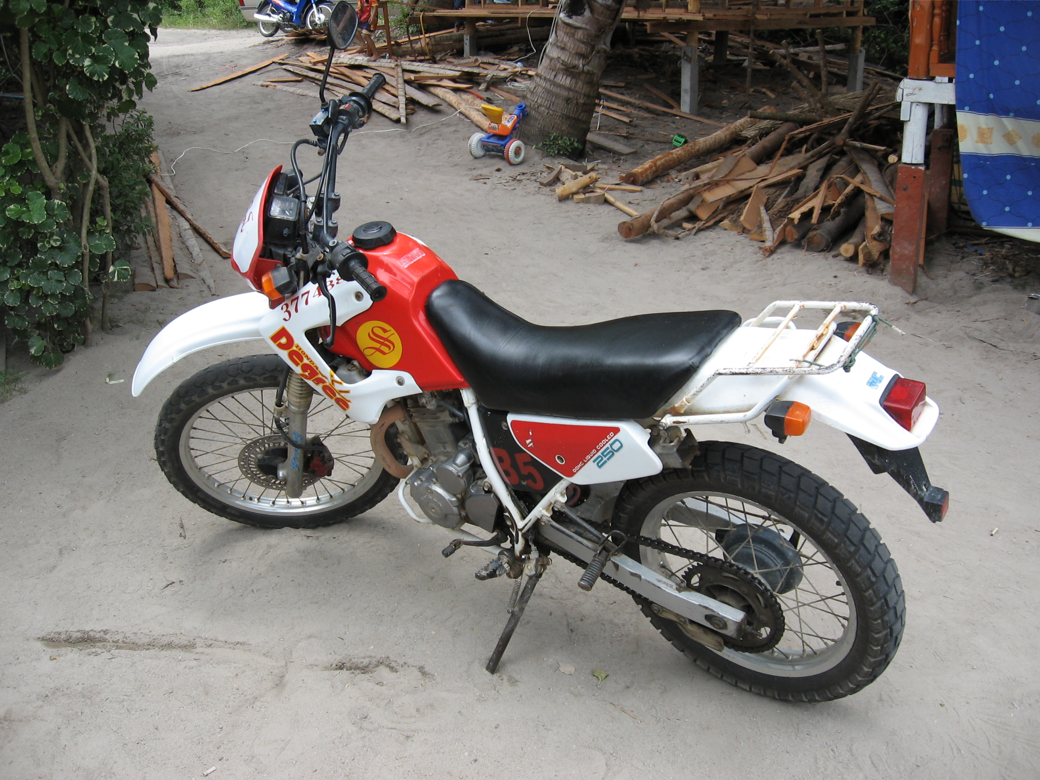 Honda XL250 from 1992 Own work. Taken in Thailand July 2006.